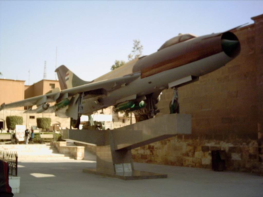 Soviet-Built Egyptian Su-7BMK displayed in the Egyptian Military Museum in Cairo Citadel